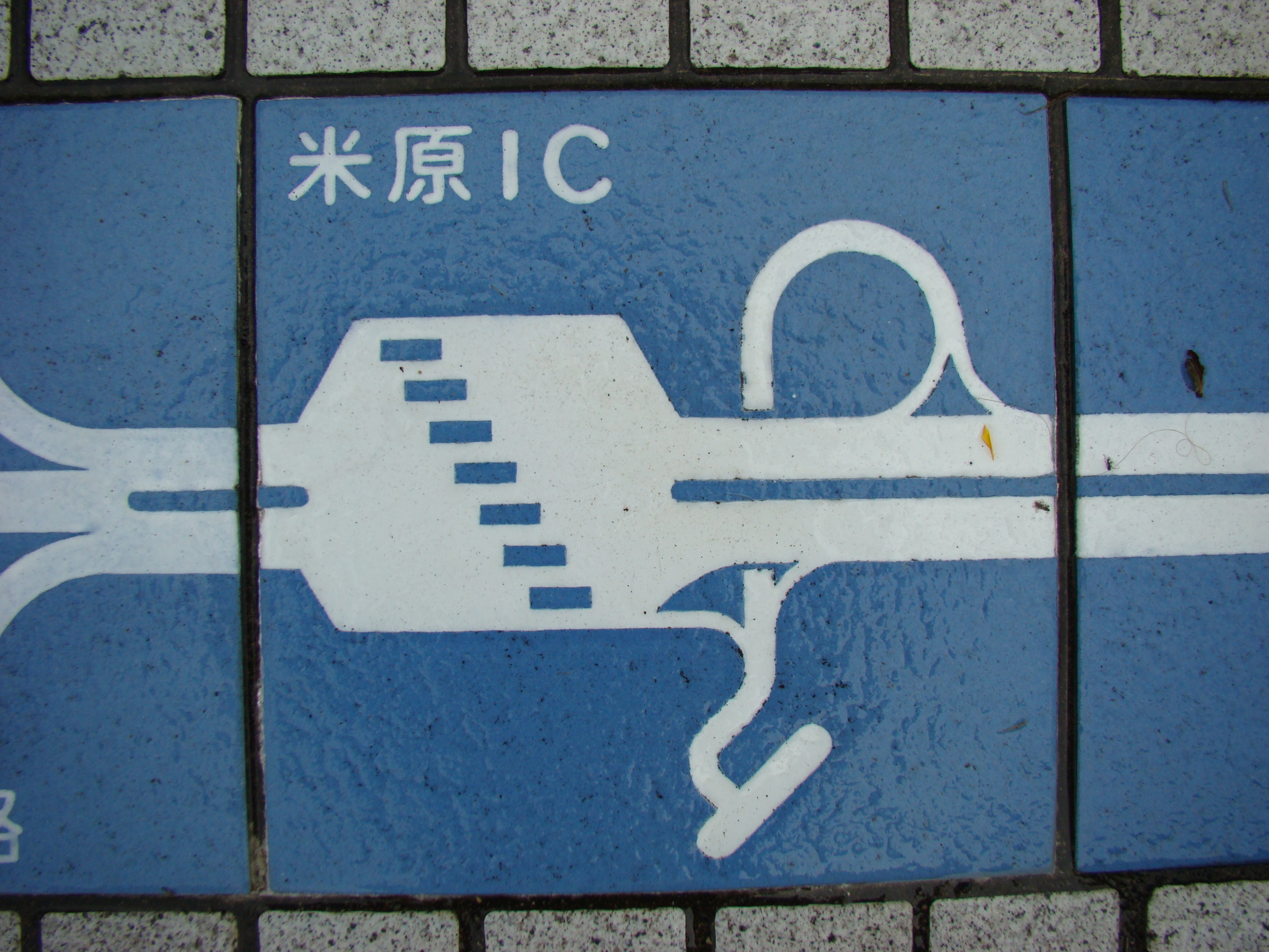 Tile which shows the shape of Maihara Interchange and former Maihara Toll Gate on the Hokuriku Expressway, installed at Nadachi Tanihama Service Area in Chayagahara, Joetsu City, Niigata Prefecture, Japan